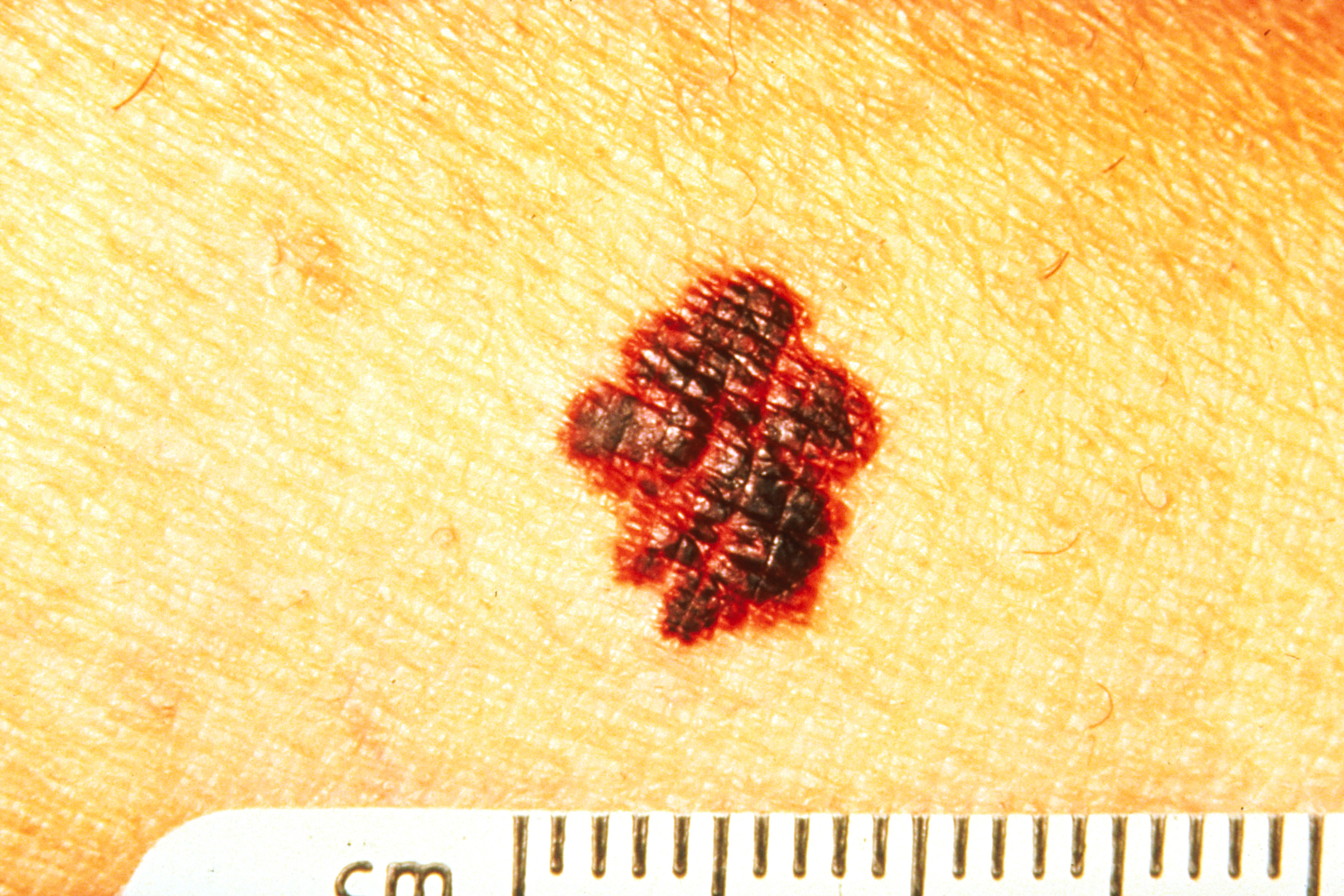 Seen is melanoma with a border that is uneven, ragged, or notched. Part of the ABCDs for detection of melanoma.